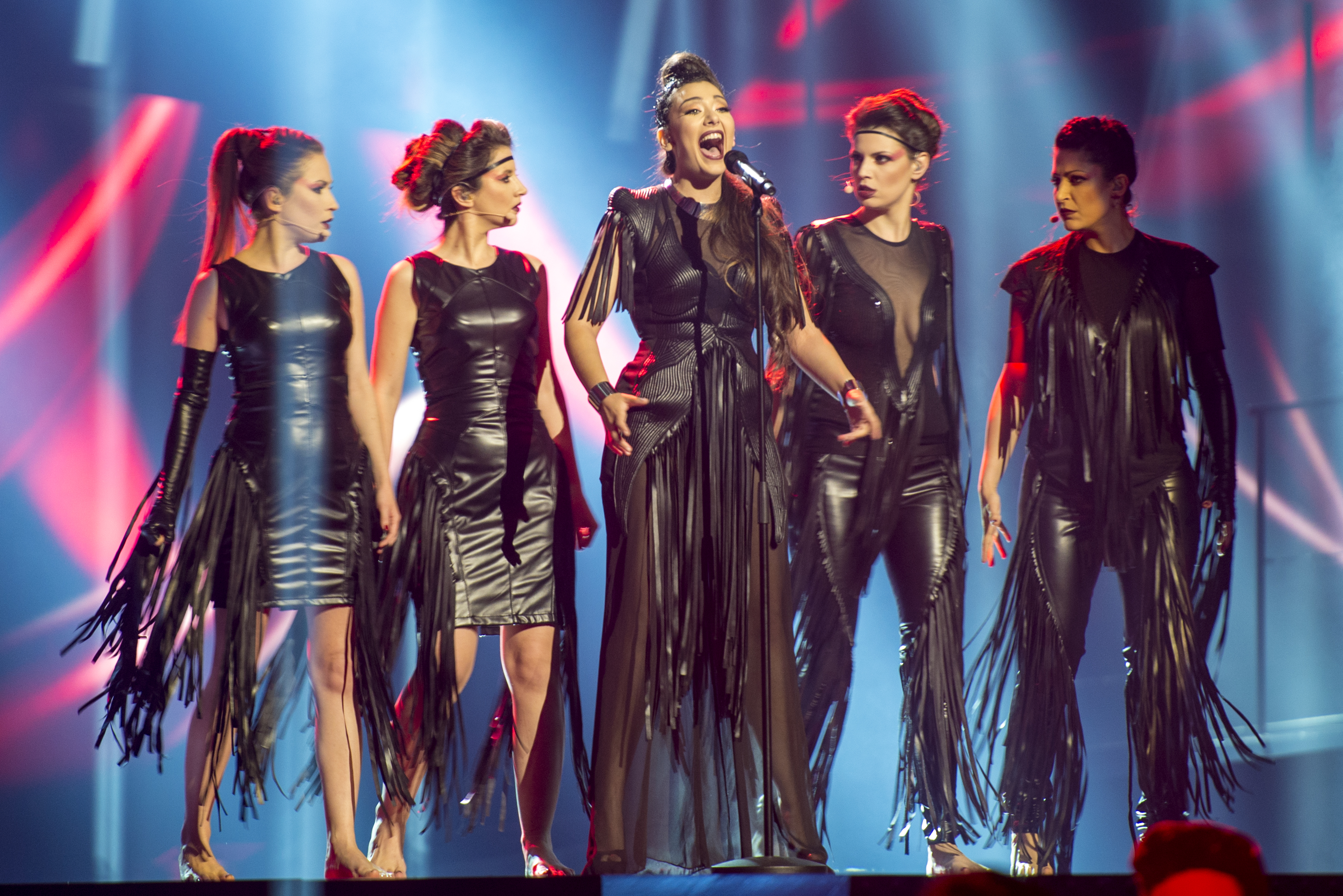 Sanja Vučić ZAA representing Serbia with the song "Goodbye" during a rehearsal before the second semi final of the Eurovision Song Contest 2016 in Stockholm. (Help translate this text)